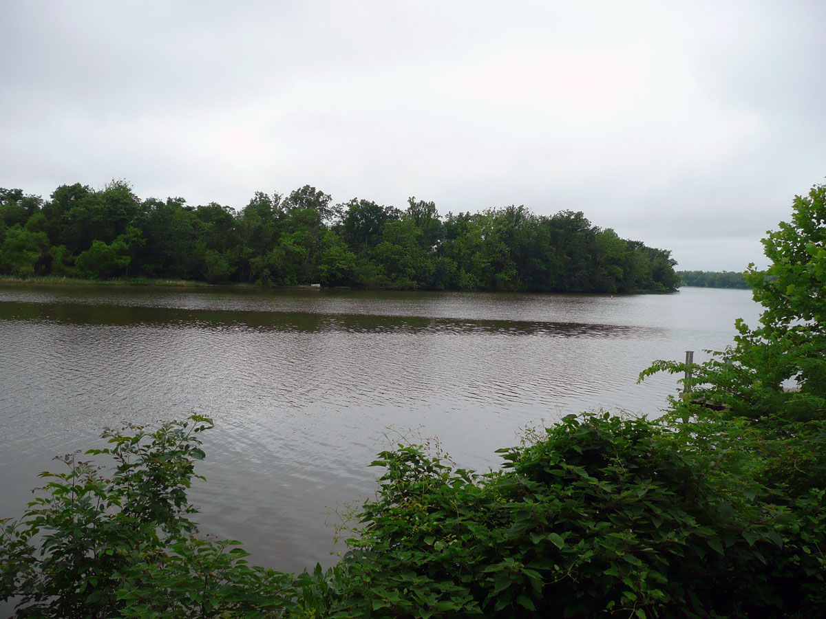 Photograph of the view across the James River, looking south, from Deep Bottom Park, Henrico County, Virginia.